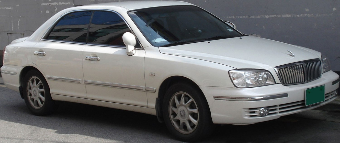 Hyundai New Grandeur XG